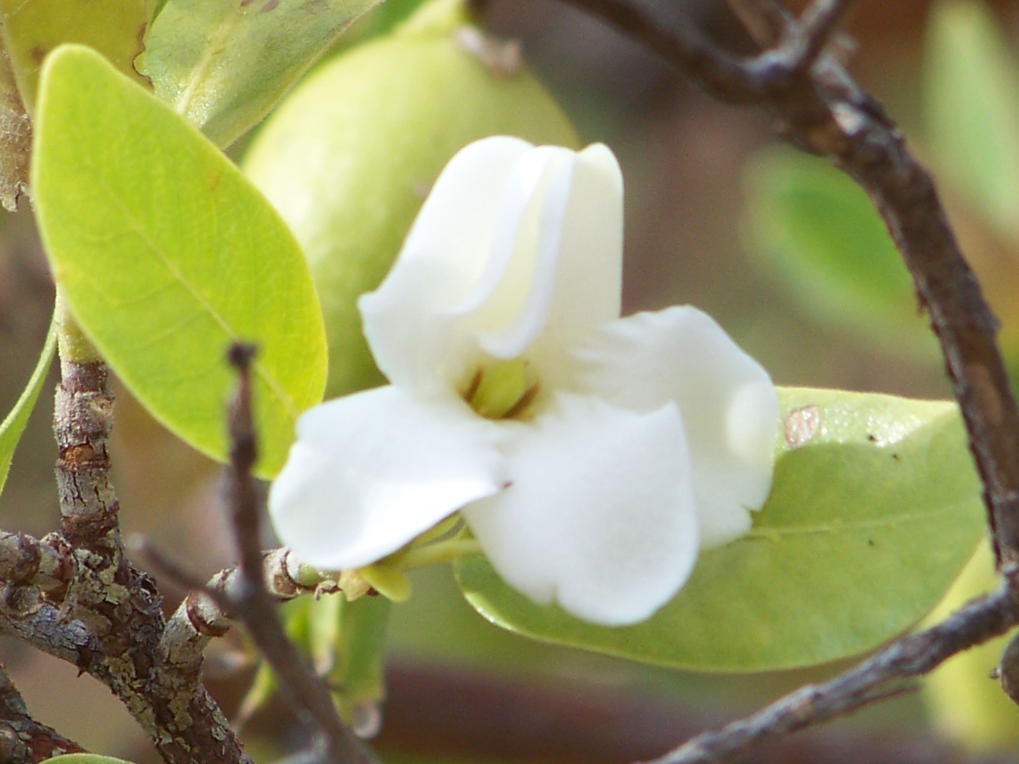 A closeup shot of the very sweet smelling Gardenia flower. The ripe fruit, which can be seen hanging behind it in the background, were used by the local indigenous people to make a sort of gravy for kangaroo meat. The leaves were also used as a herb.